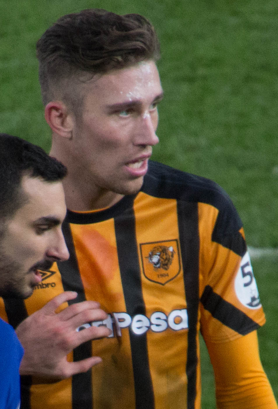 FA Cup 5th round 16.2.18